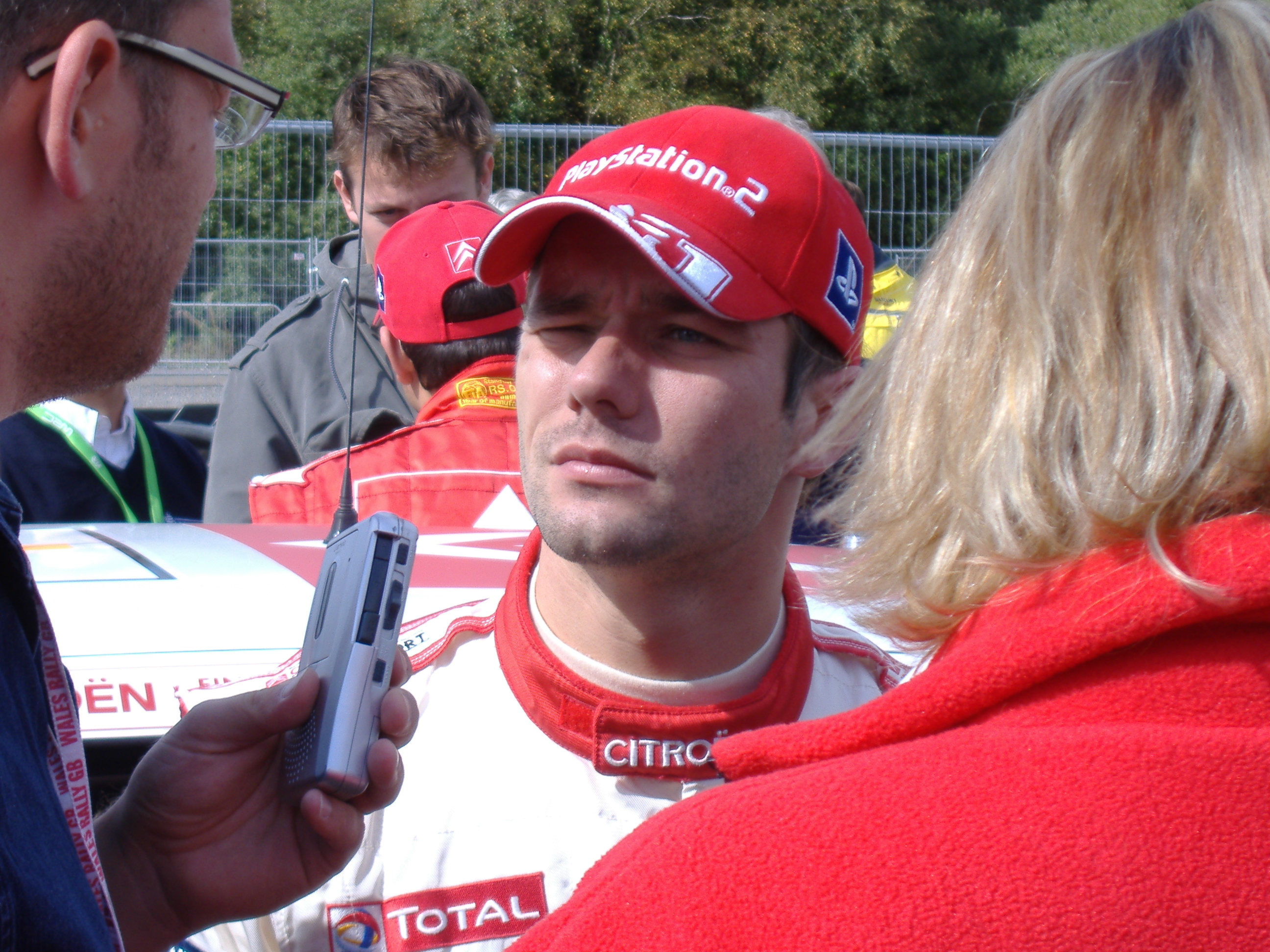 A photo of Sébastien Loeb at the en:2005 Wales Rally GB.